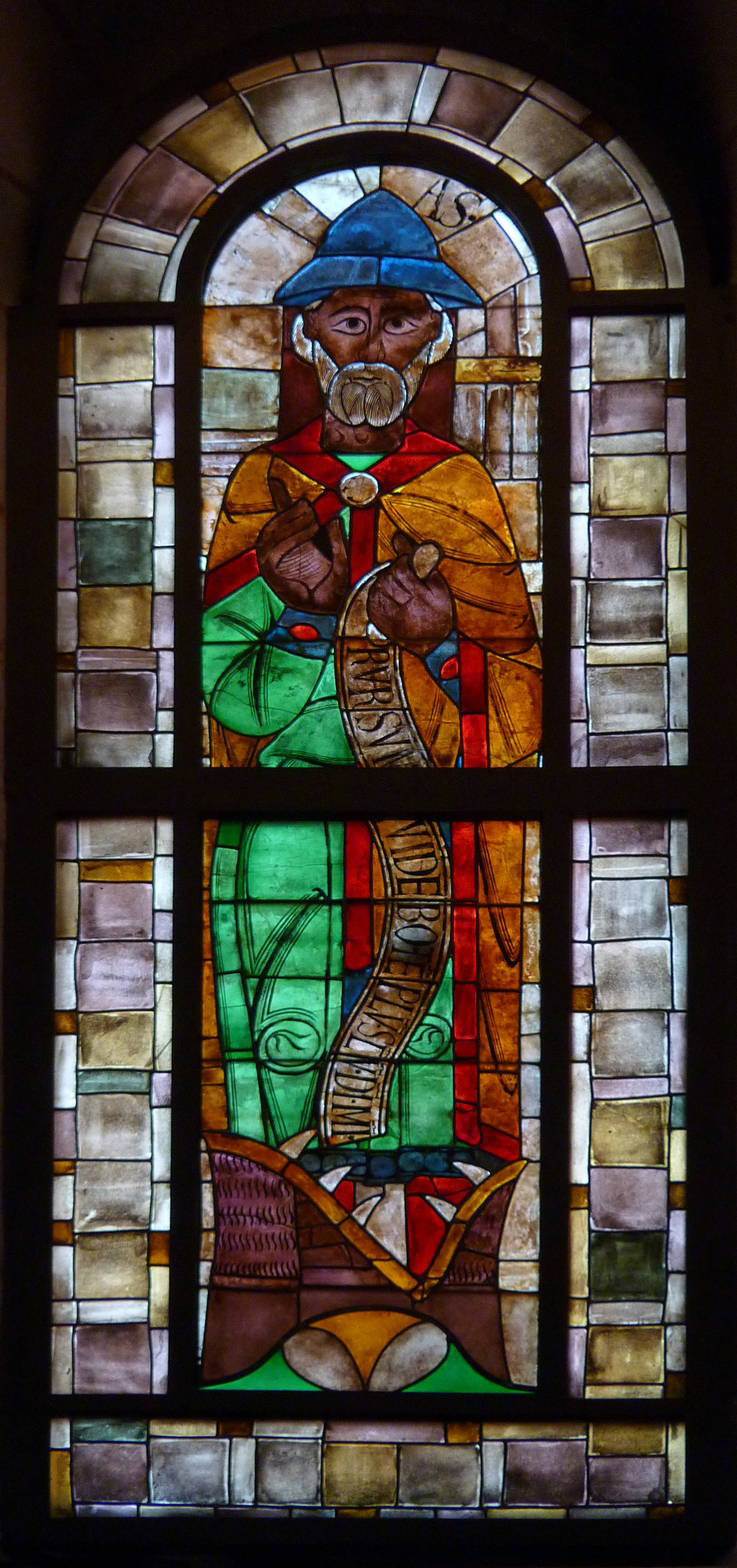 Prophet Jonas in Augsburg Cathedral, stained glass window, early 12th century